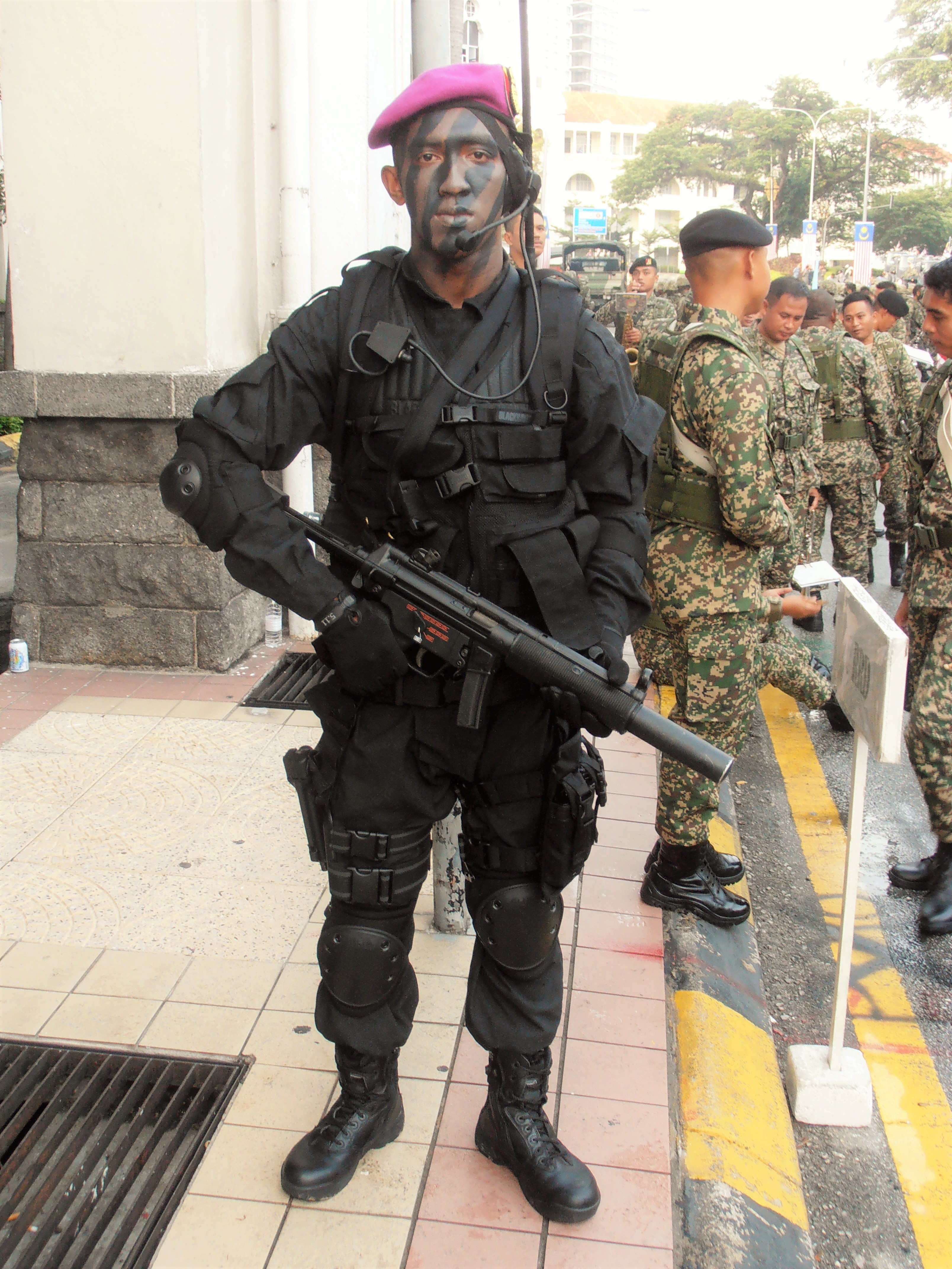 Commando from PASKAL, Royal Malaysian Navy wearing black uniforms and magenta beret stand with HK MP5SD6 during the 59th Merdeka Day in Kuala Lumpur.